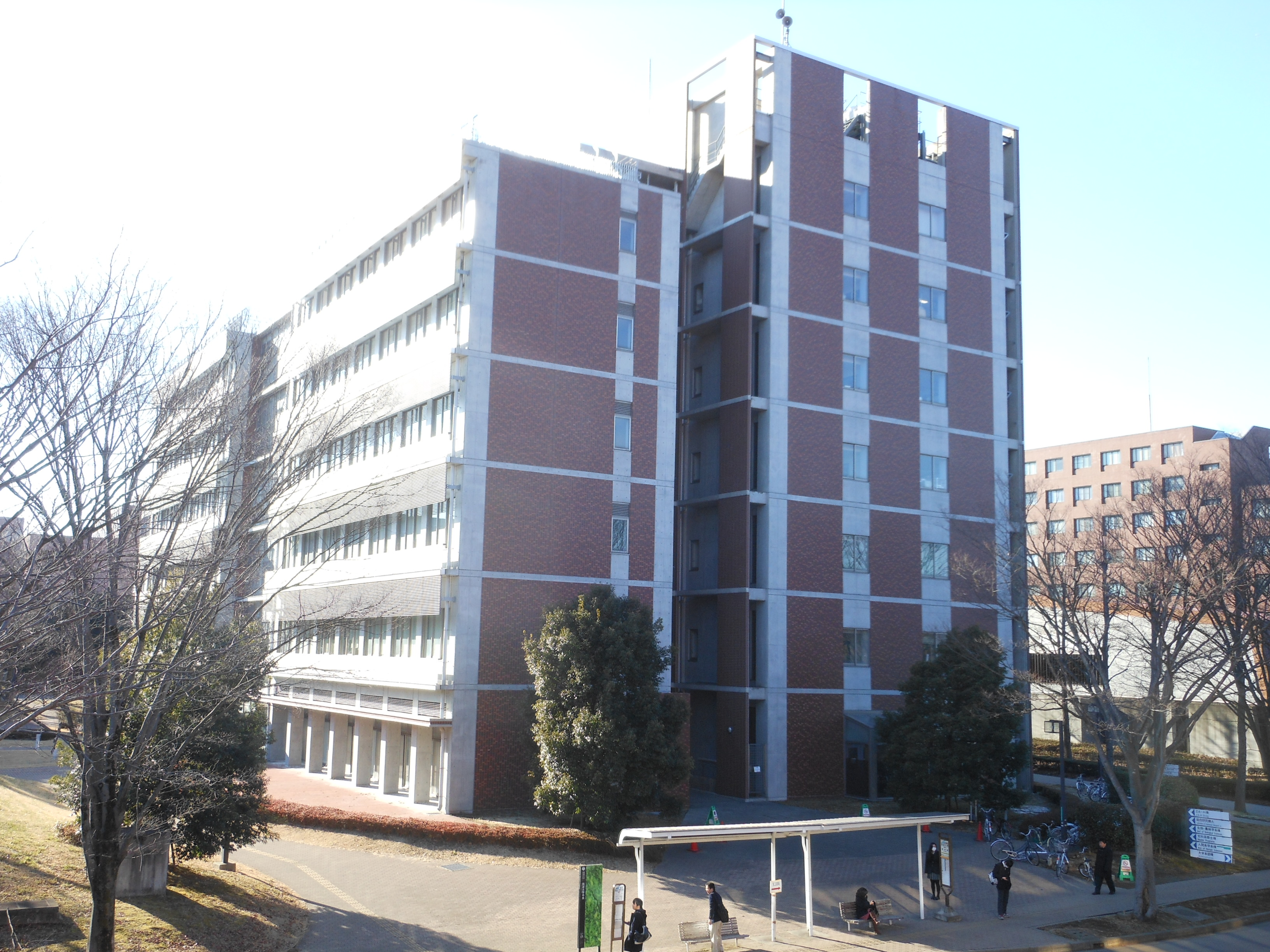 This is the Laboratory of Advanced Research A in University of Tsukuba, Japan.